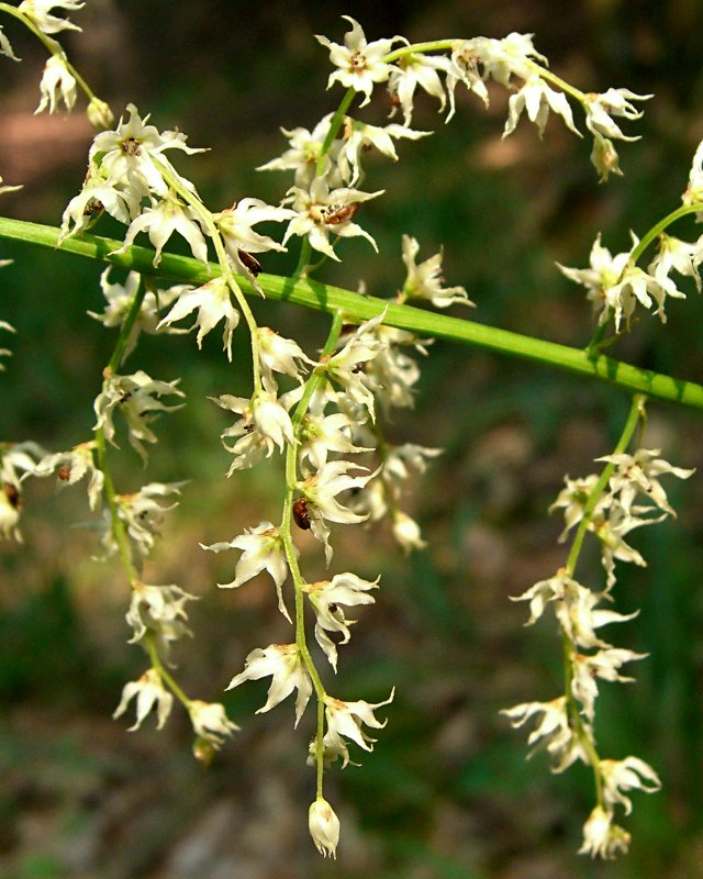 Stenanthium gramineum, Eastern Featherbells, photographed in the Shenandoah Mountains.